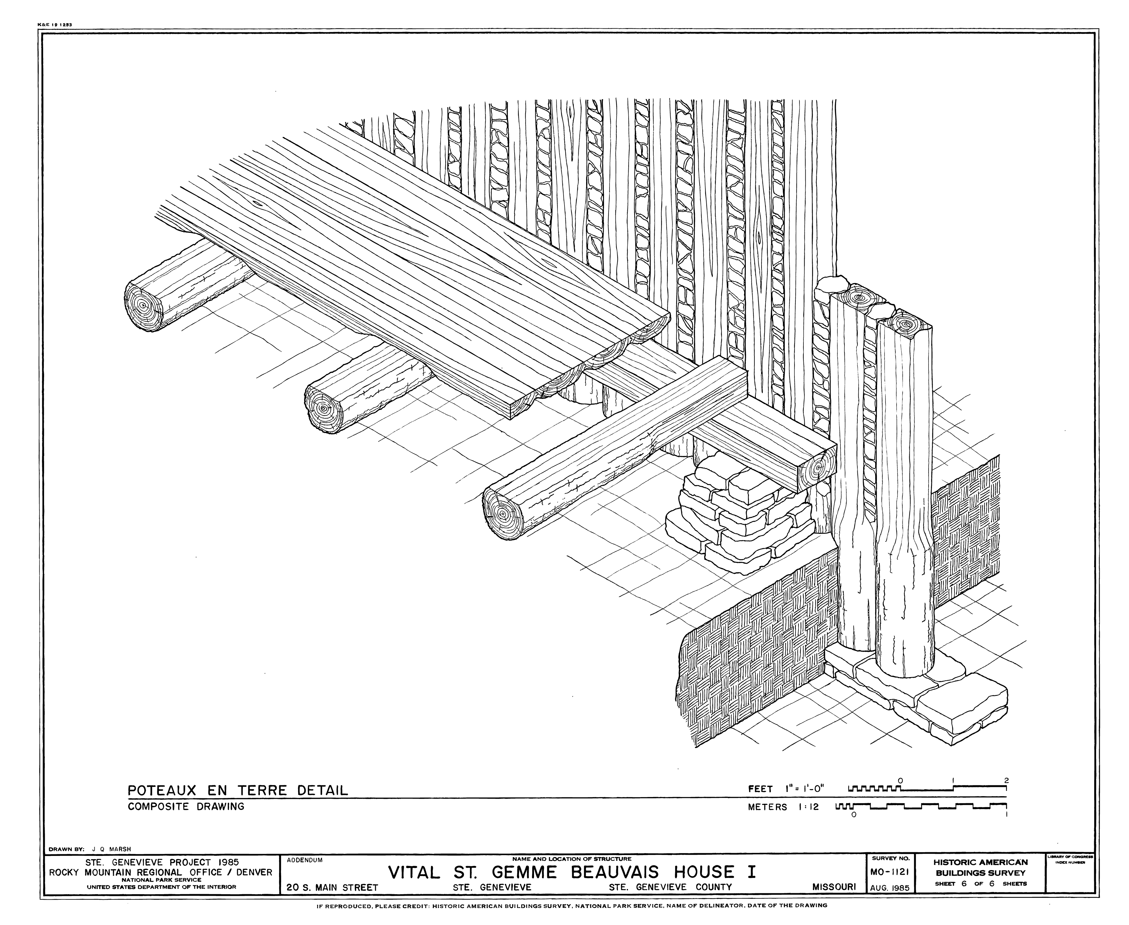 This is an architectural drawing of poteaux-eEn-terre in the Vital St. Gemme Beavais House at 20 South Main St. in Ste. Geneviève, Missouri. It was built in 1785 by Joseph V. Beauvais.